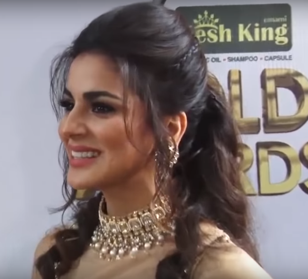 Shradda arya at Gold Awards 2018